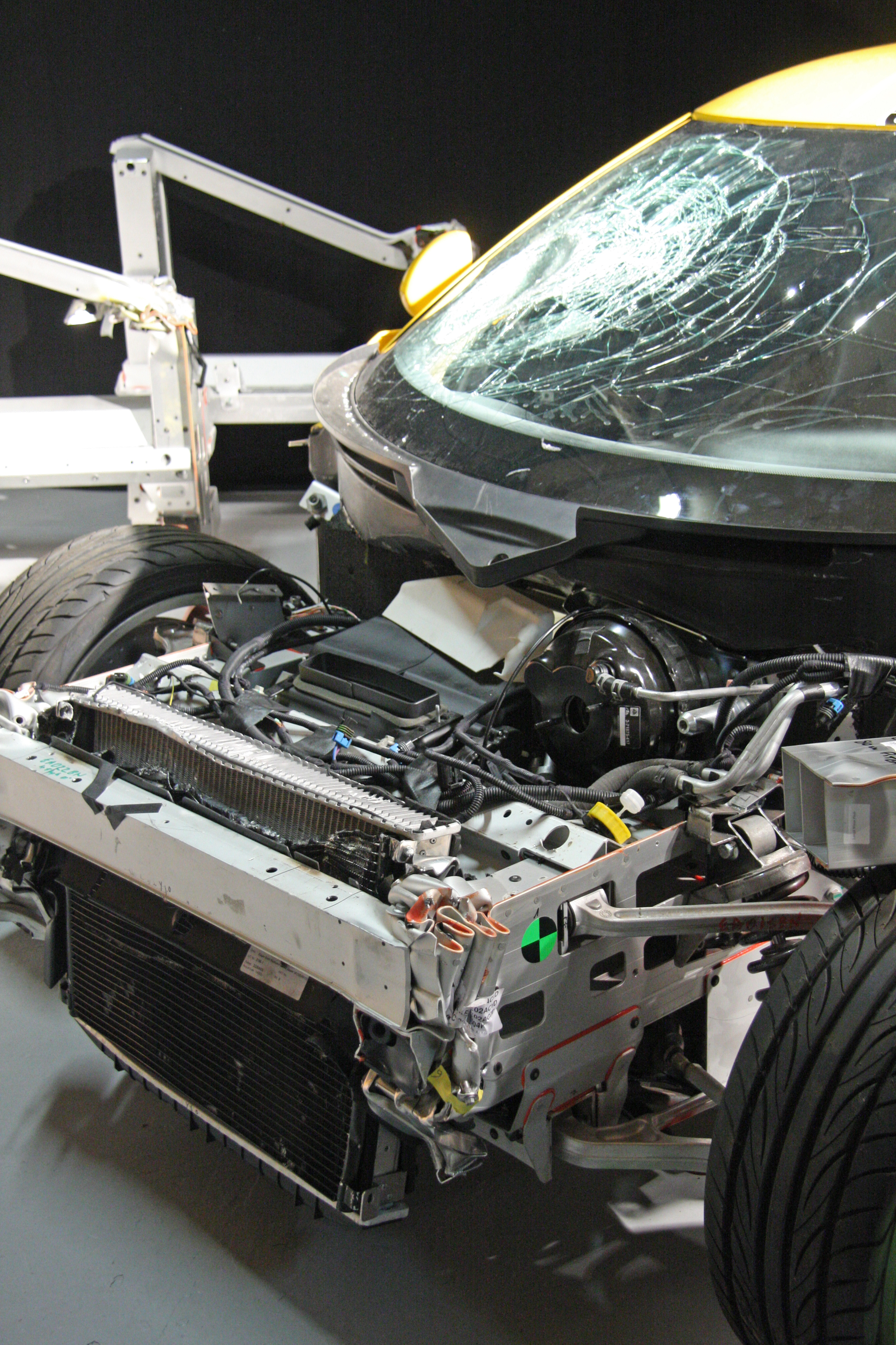 Lotus Evora front crash test Lotus 60th Celebration